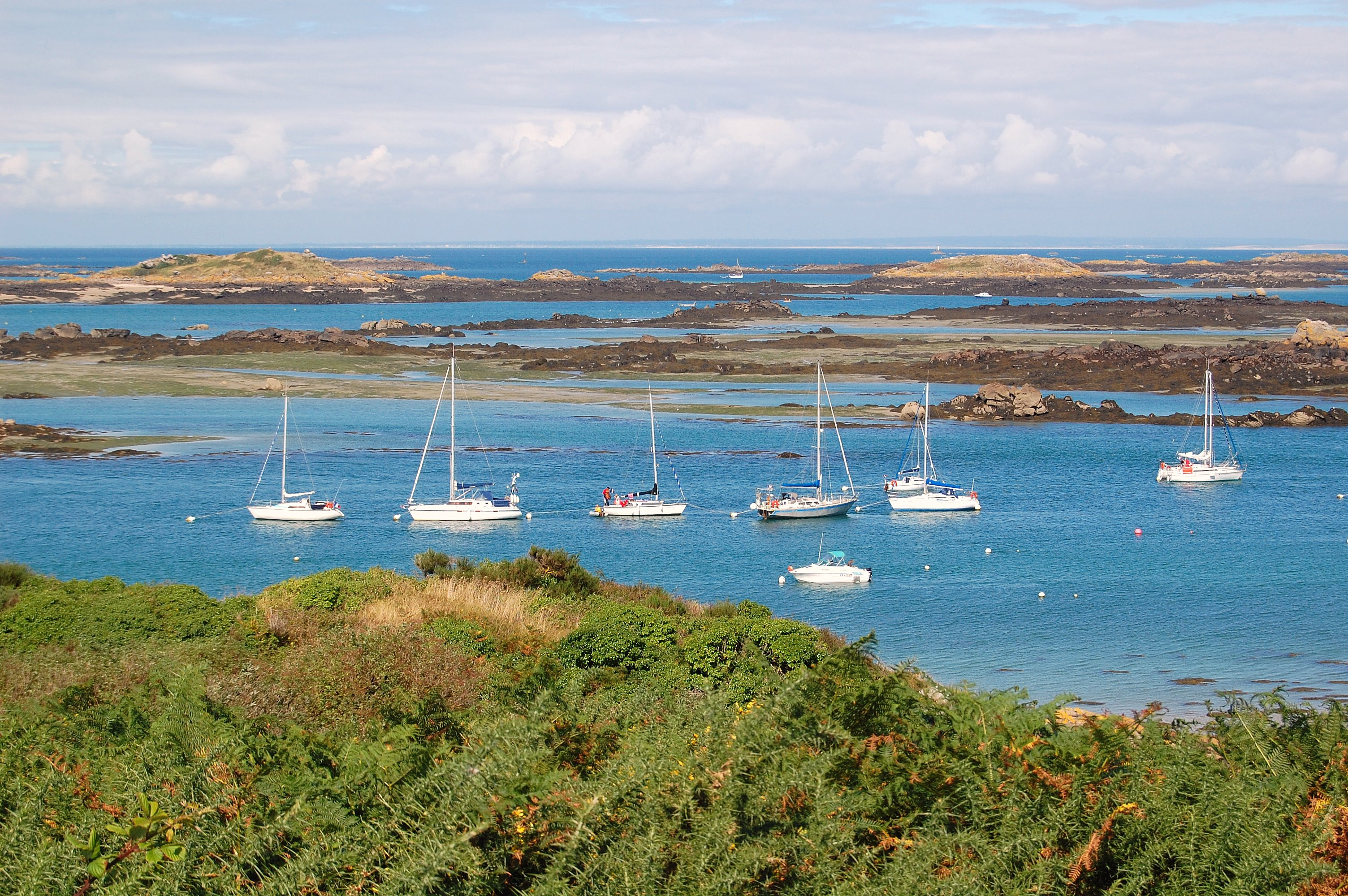 North of the sound of Chausey Island, France